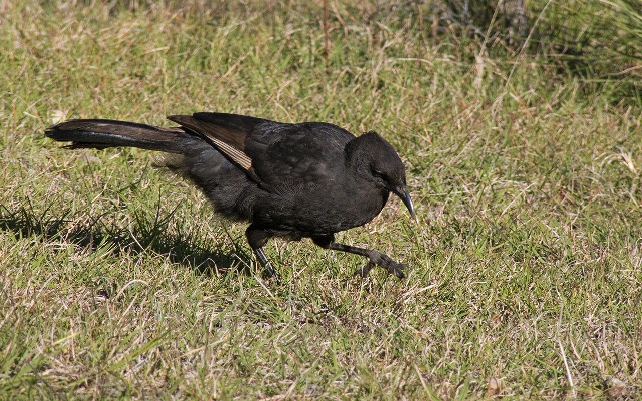 White-winged Chough (Corcorax melanorhamphos) foraging in grass.